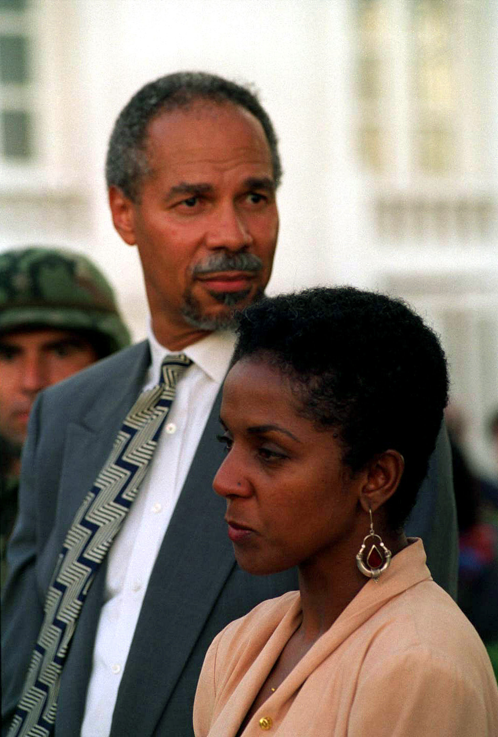 Mr. Randall Robinson and his wife wait for the helicopter that will take them to the airport. They were here to attend the inauguration ceremony of President Jean-Bertrand Aristide who was returned as President of Haiti during Operation Uphold Democracy and Operation Restore Democracy. Mr. Robinson staged a hunger strike during the former U.S. policy on Haiti. Operation / Series: UPHOLD DEMOCRACY